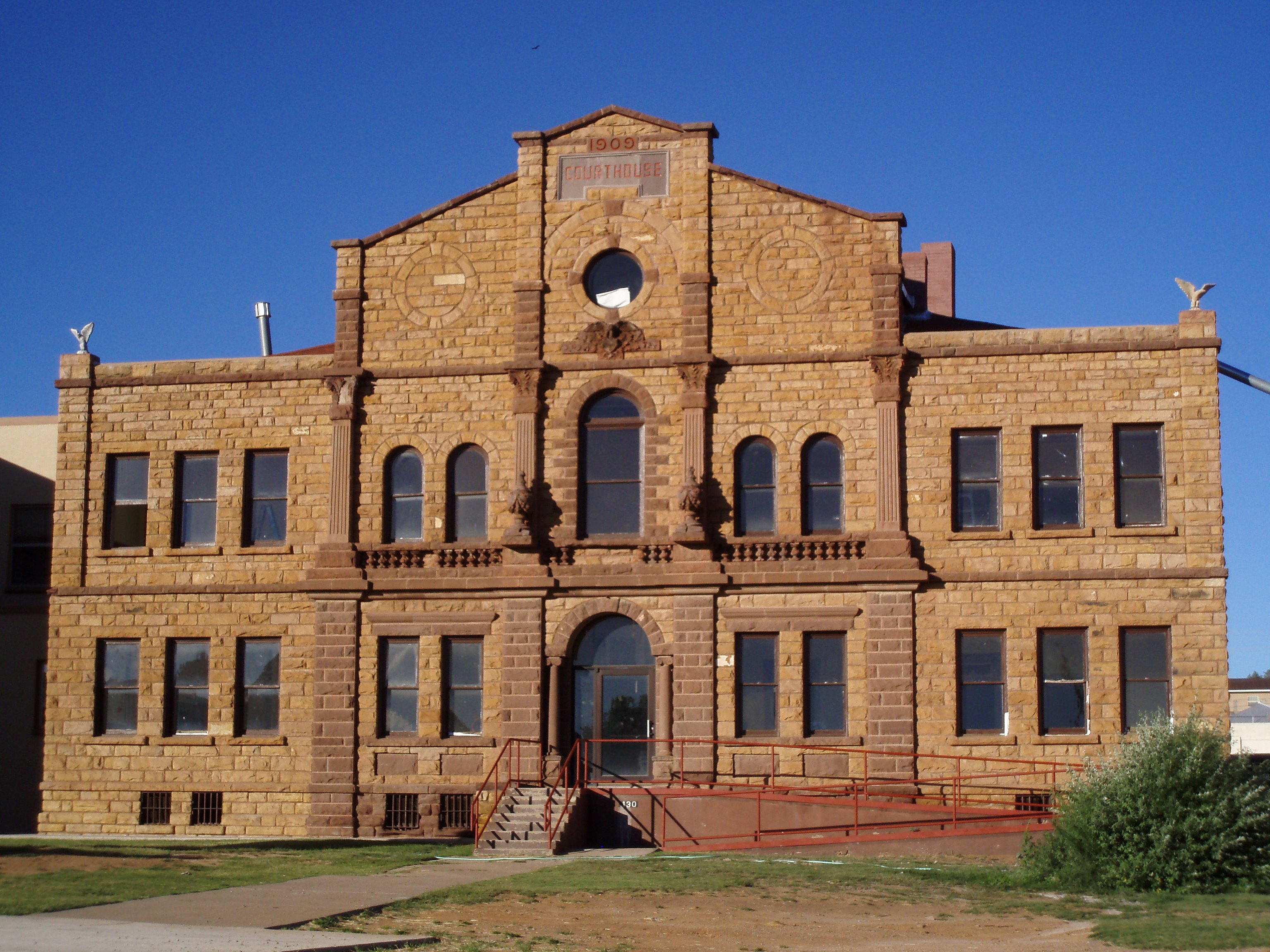 Across the street from the little shopping area.